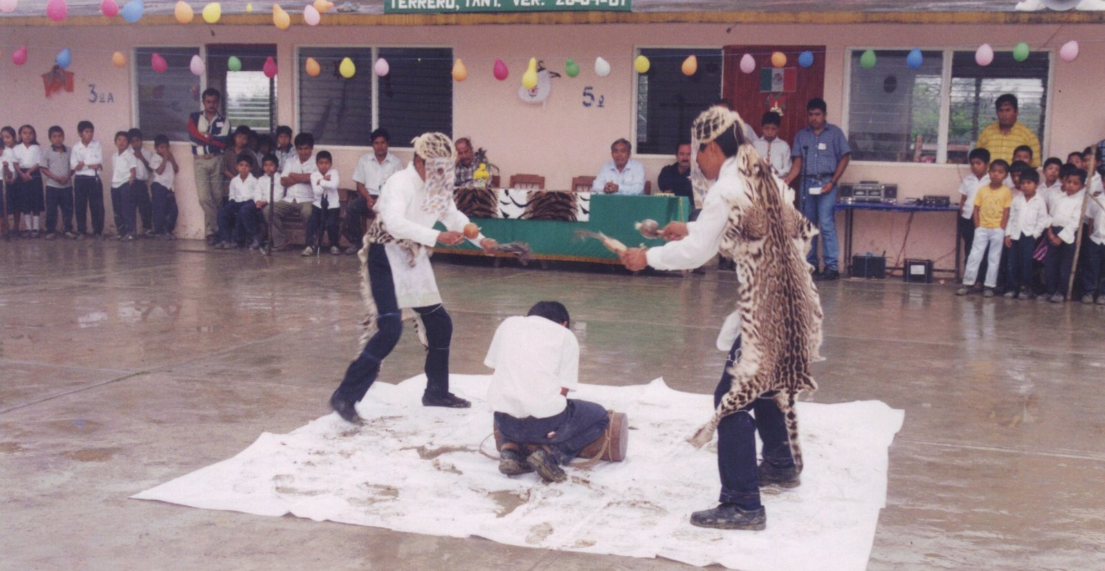 Danza del tigrillo